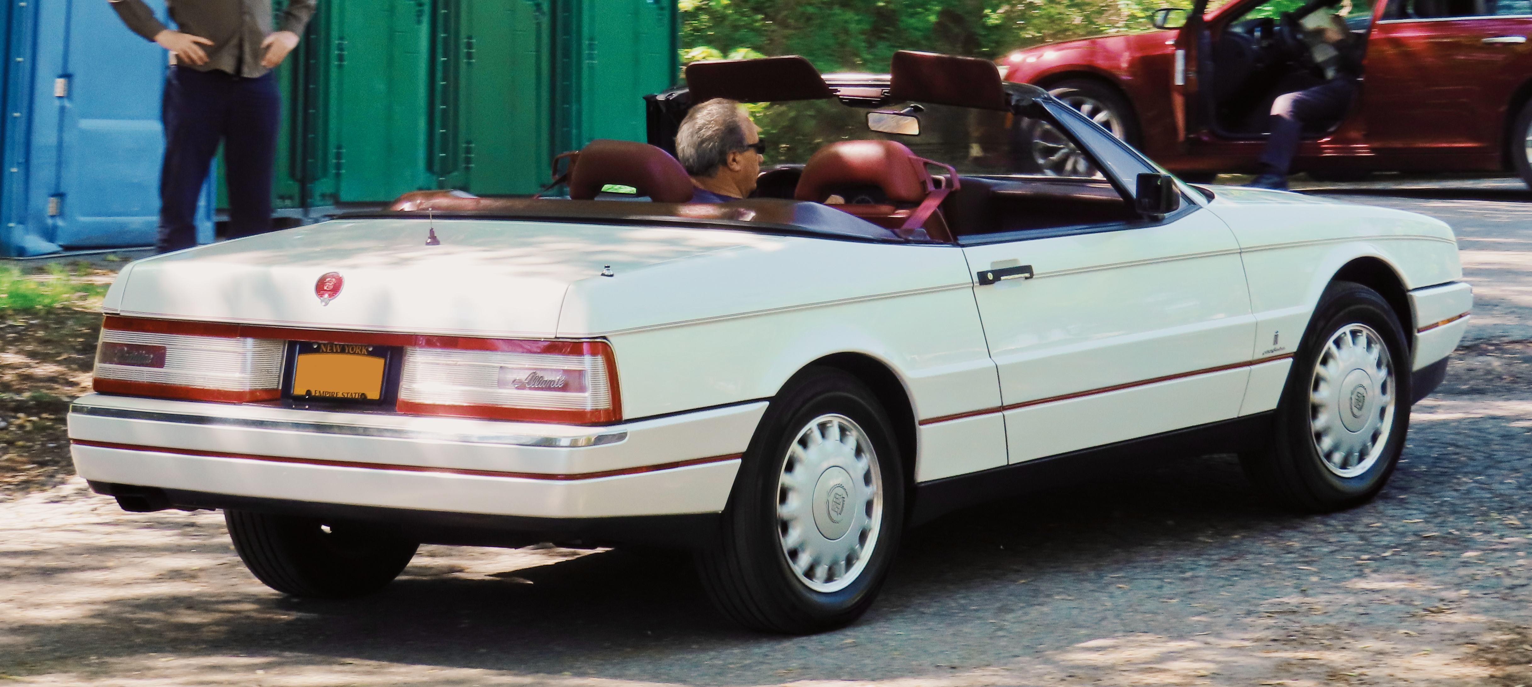 A 1989 Cadillac Allanté Convertible photographed in Chelsea Mansion, Muttontown/East Norwich, New York, USA